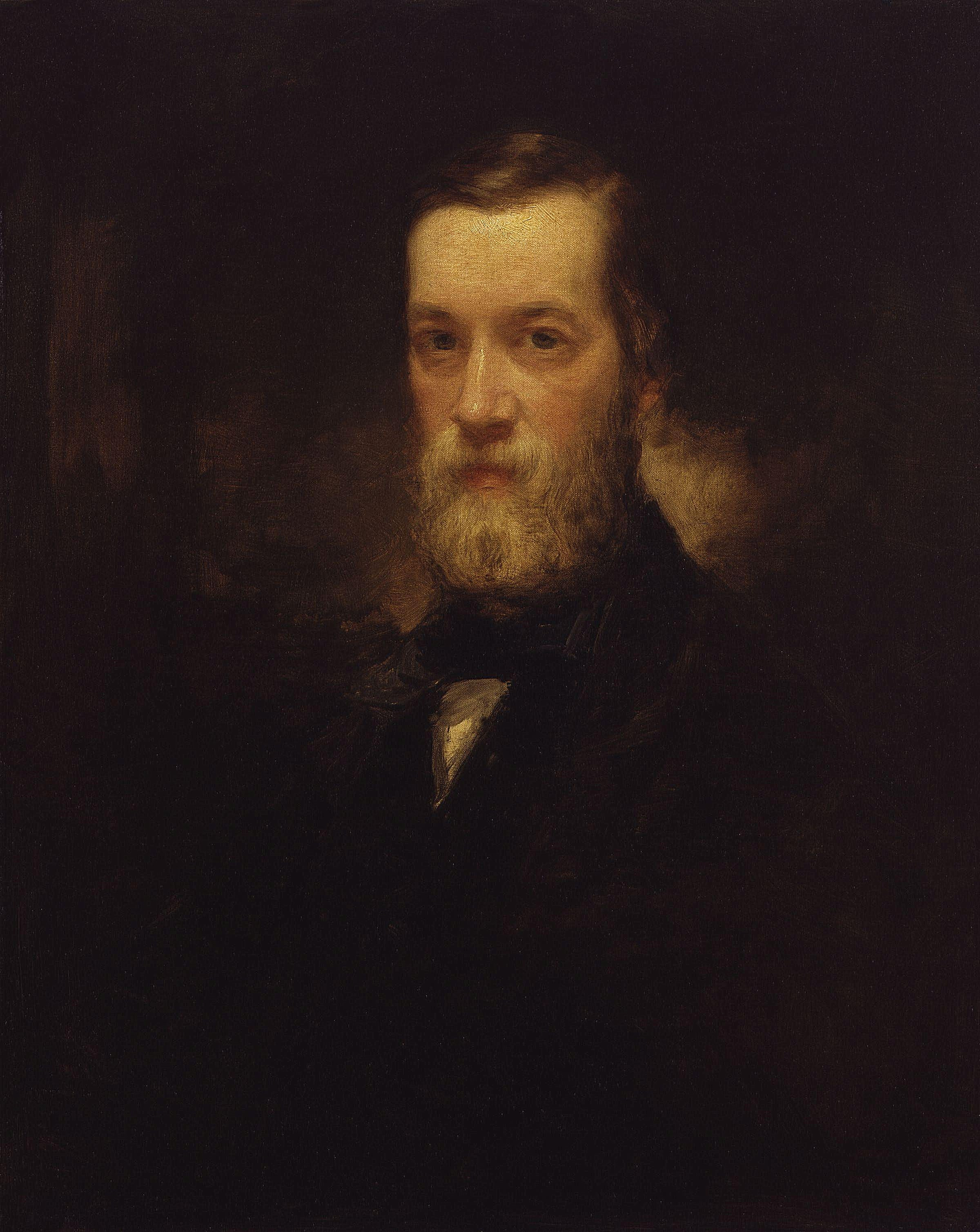 All images in this batch have been evaluated manually for evidence that the artist probably died before 1939, or that the work is anonymous or pseudonymous and was probably published before 1923. Artist floruit 1856, presumed dead by 1939.